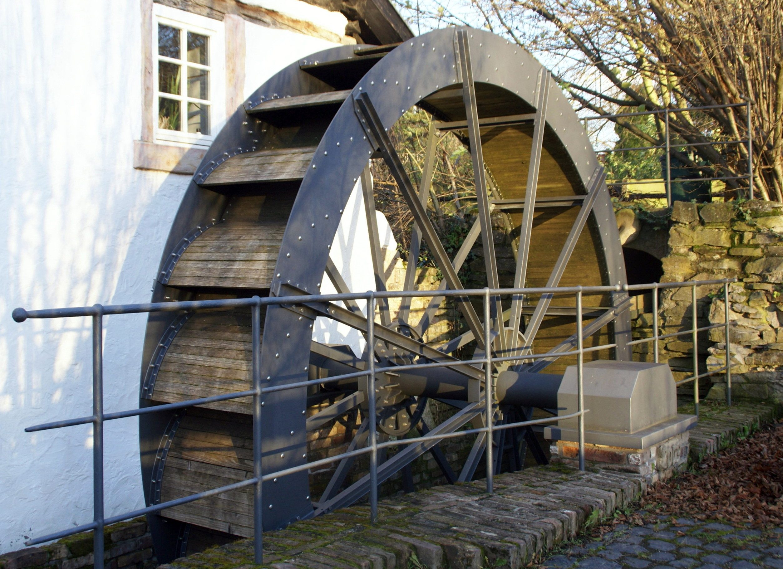 Former mill with modern overschoot water wheel in Lüftelberg, Schloßstraße 6